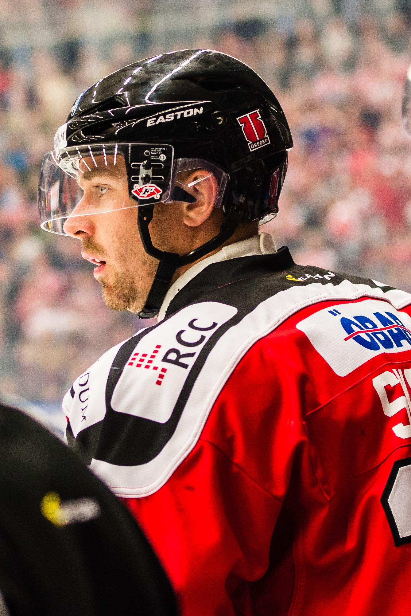 Tomas Skogs playing for Örebro HK in SHL (Sweden's highest league) against MODO Hockey in Behrn Arena 2013-10-05.